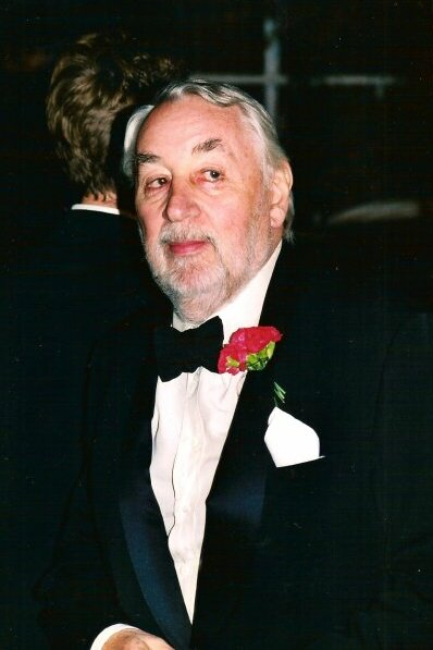 Philippe Noiret, French actor, at the Cannes Film Festival